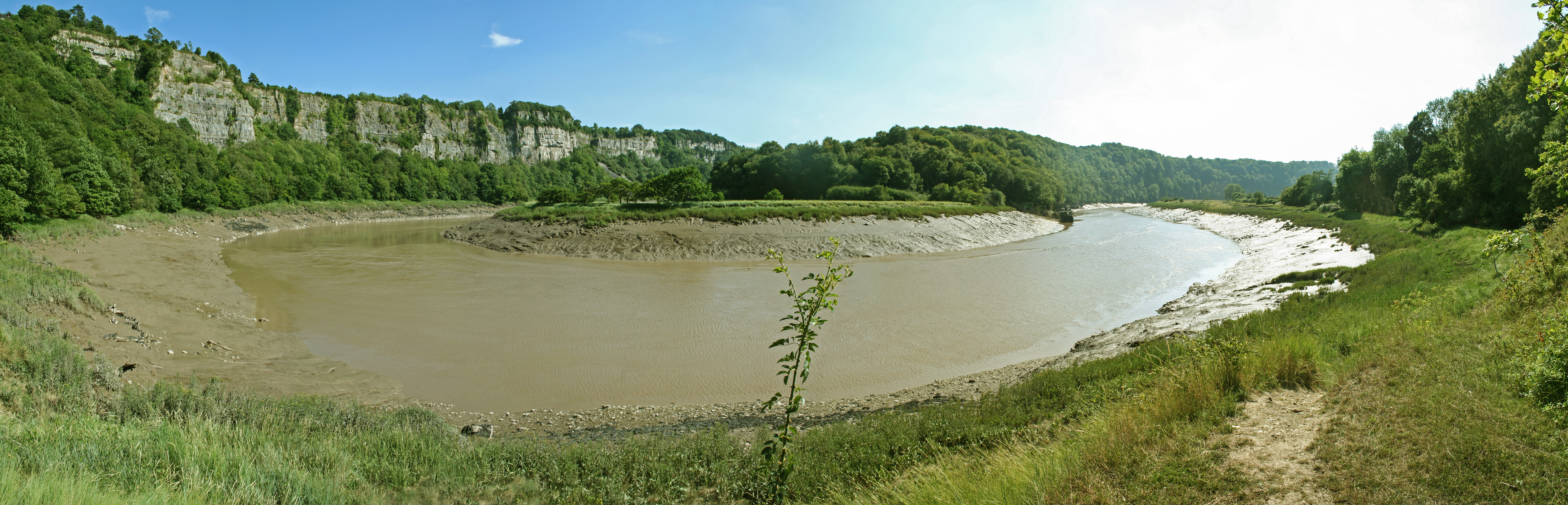 River Wye and Lancaut and Ban y Gor Nature Reserve, Gloucestershire, UK. At this point, the River Wye is the border between England and Wales.